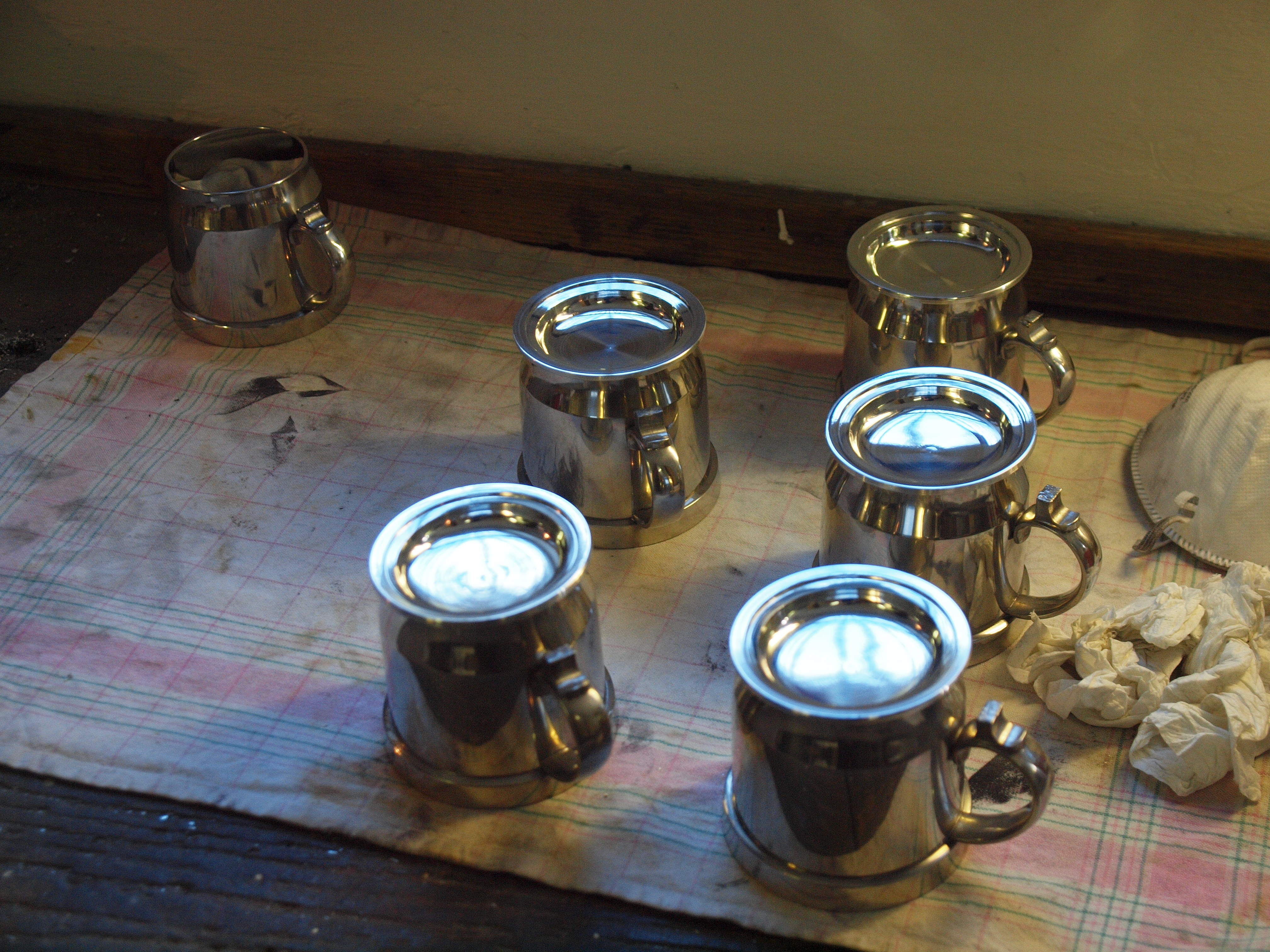 Ludwig Mory Tin pewetery